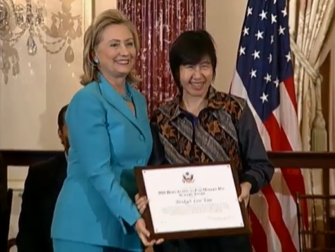 Singaporean migrant workers' rights advocate Bridget Lew Tan receiving an award from Hillary Clinton at a 2011 event honoring Tan and other anti-human trafficking advocates.